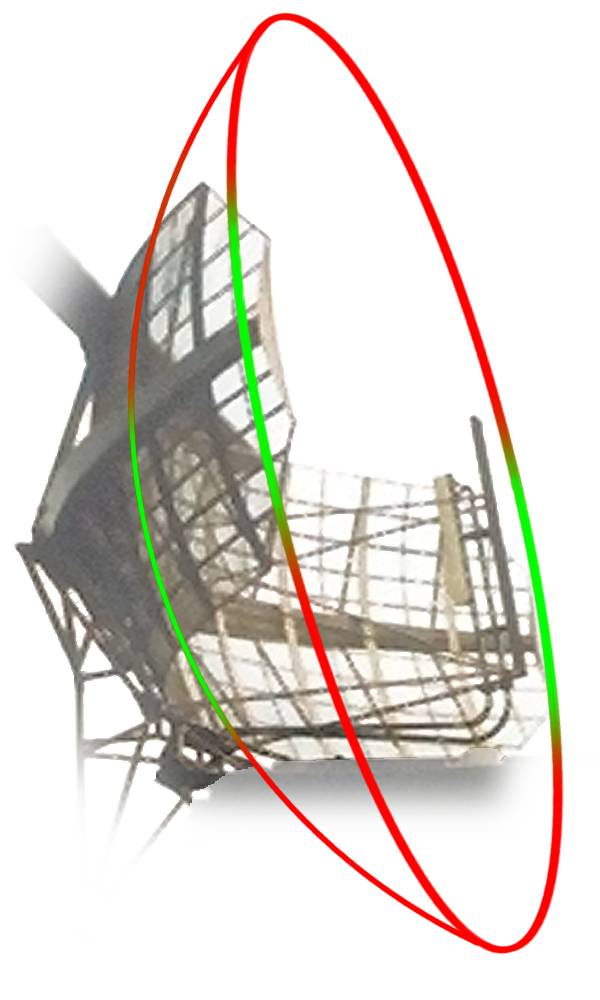 Fan beam antenna pattern can be a result of a cropped parabolic dish: the longer dimension of the parabolic remnant make a narrower beamwith in this dimension. The shown dish is the upper antenna of the ancient Russian Radar "Bar Lock". The beamwidth is given in azimuth to as 1.5 degrees, and in elevation more than 15 degrees.